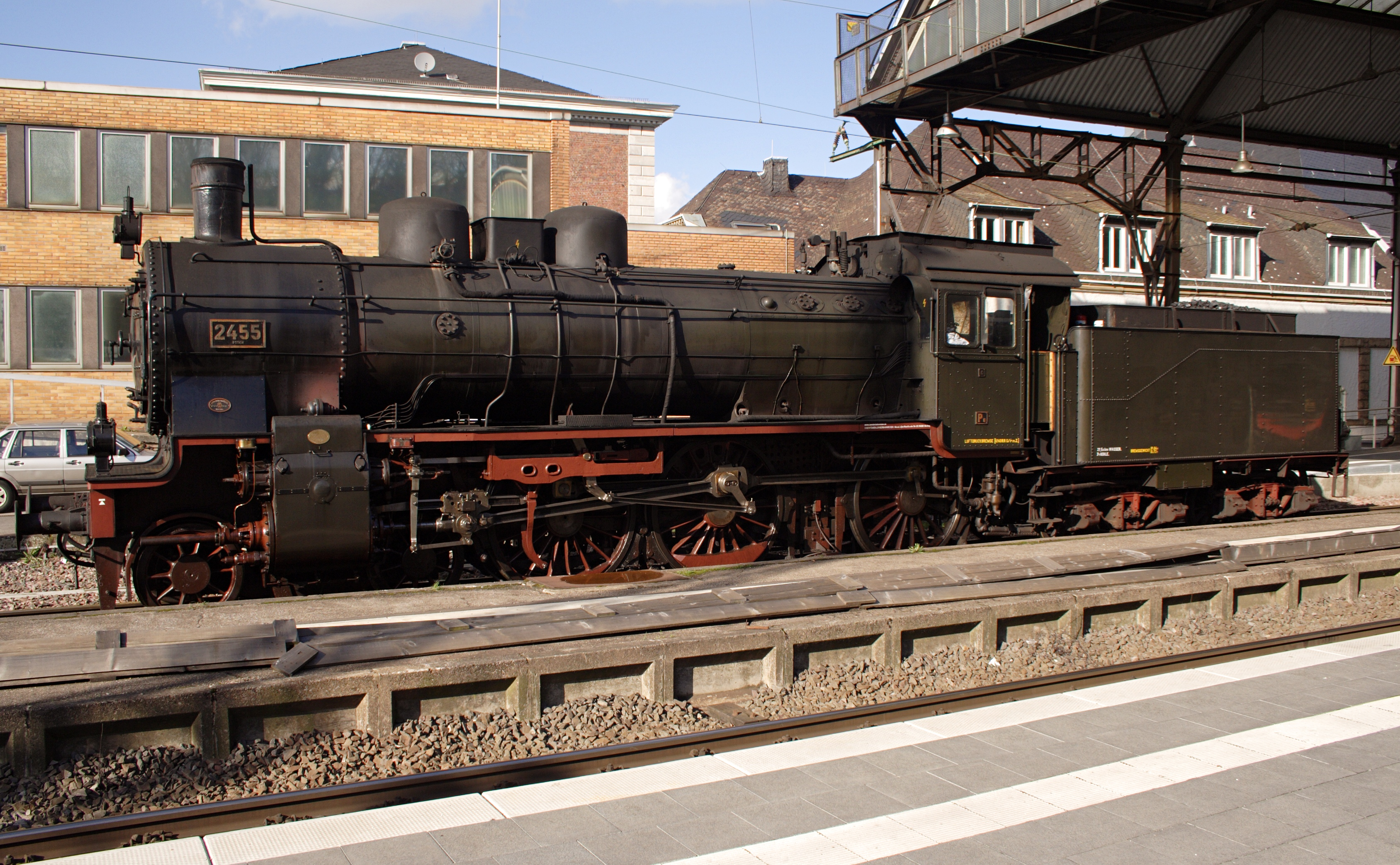 This photograph shows the class P 8 locomotive No. 2455 in Aachen. The photograph was taken during the visit of "Zug der Erinnerung" (Train of Commemoration) to Aachen. Camera data Camera: Canon EOS 350D Lens: EF–S 18–55 mm 1:3.5–5.6 Exposure time: 1/30 s Sensivity: ISO 100 Accessories: Tripod, cable release.